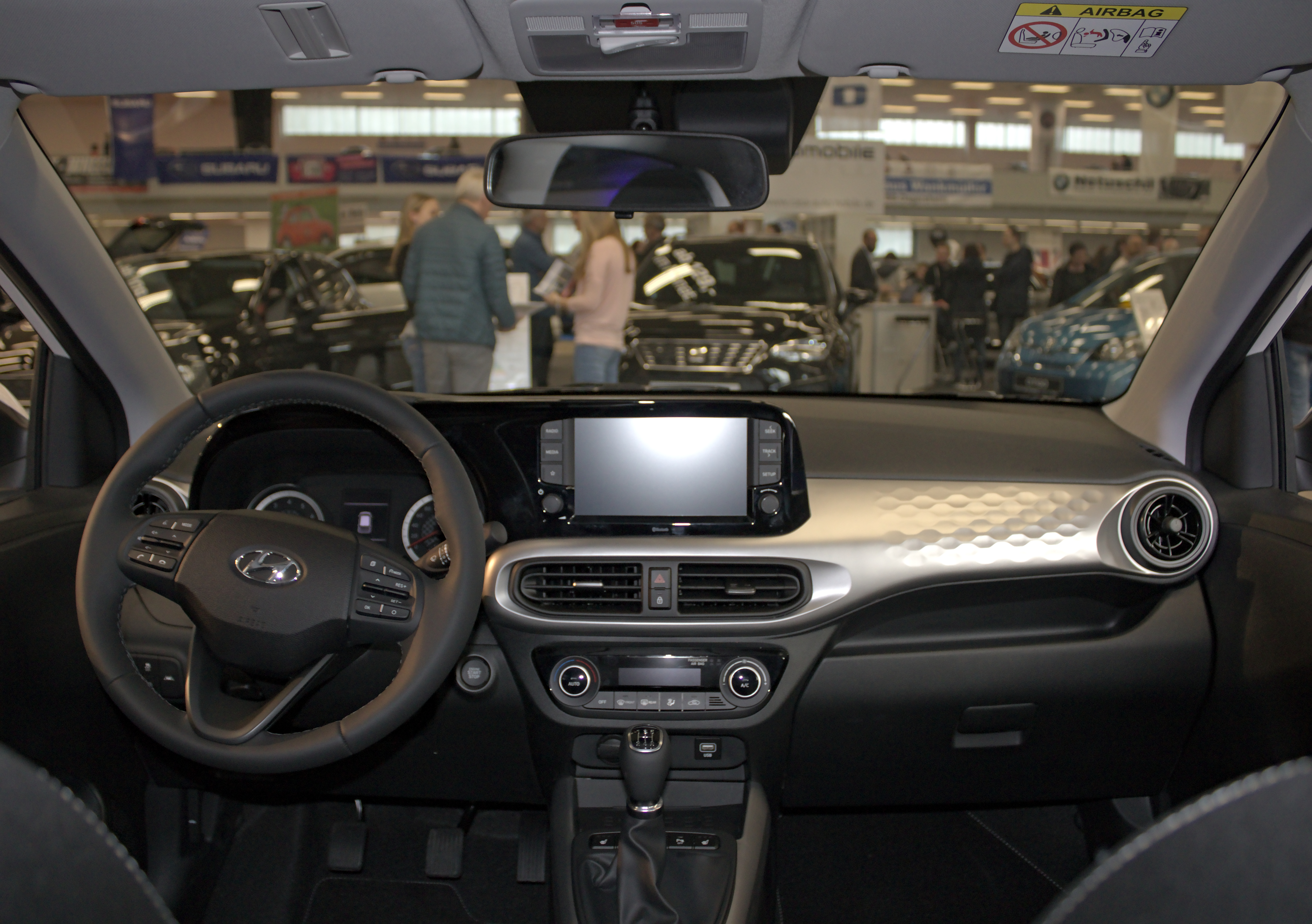 Hyundai_i10_(LA)_Sindelfingen_2020